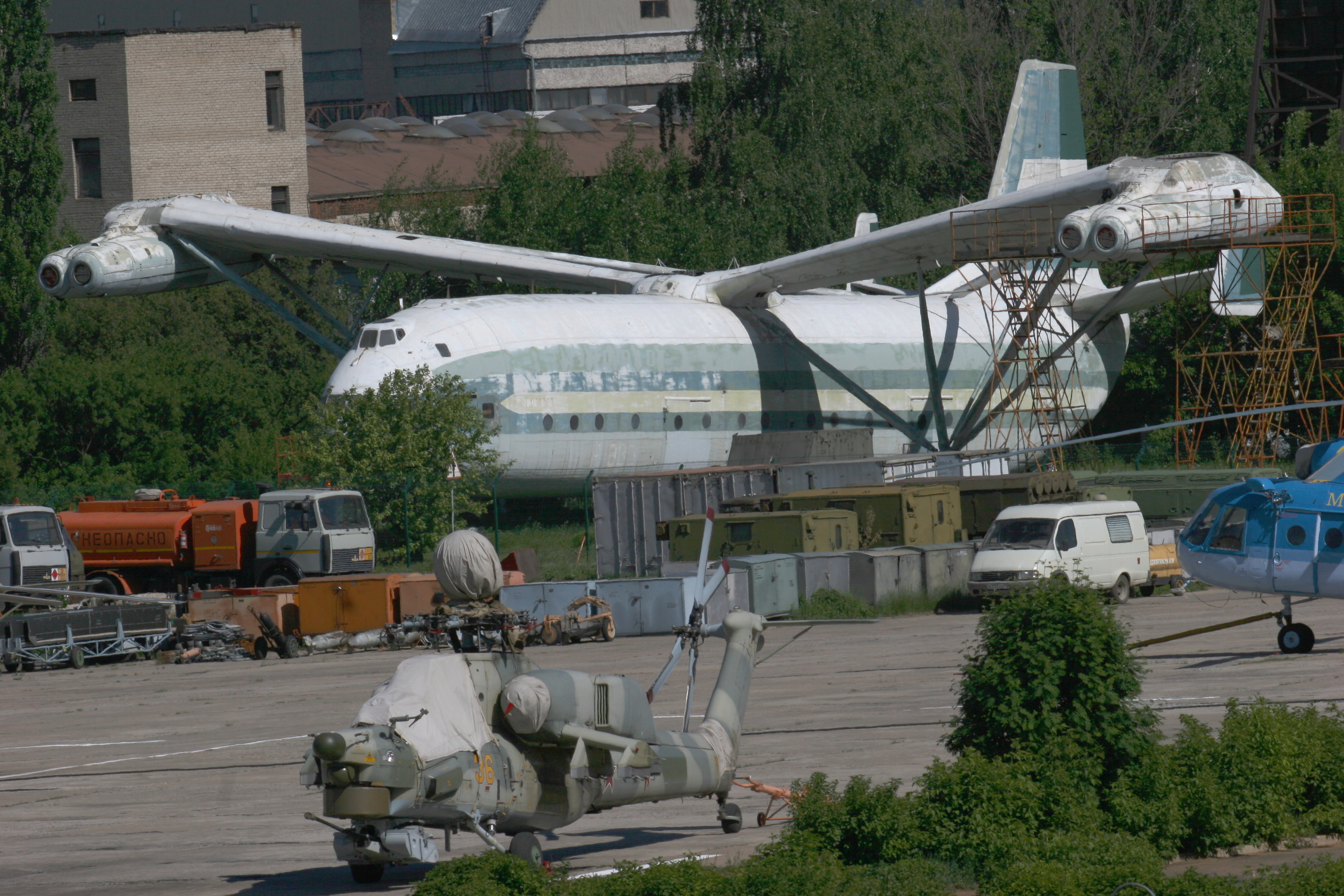 Mi-12 and Mi-28 at the Mil Helicopter Plant in Panki, Tomilino.Photo with Canon EOS 20D using Tair-3S telephoto lens (M42x1 lens mount with Jolos EOS-M42 converter), manual focusing, inf focal length.